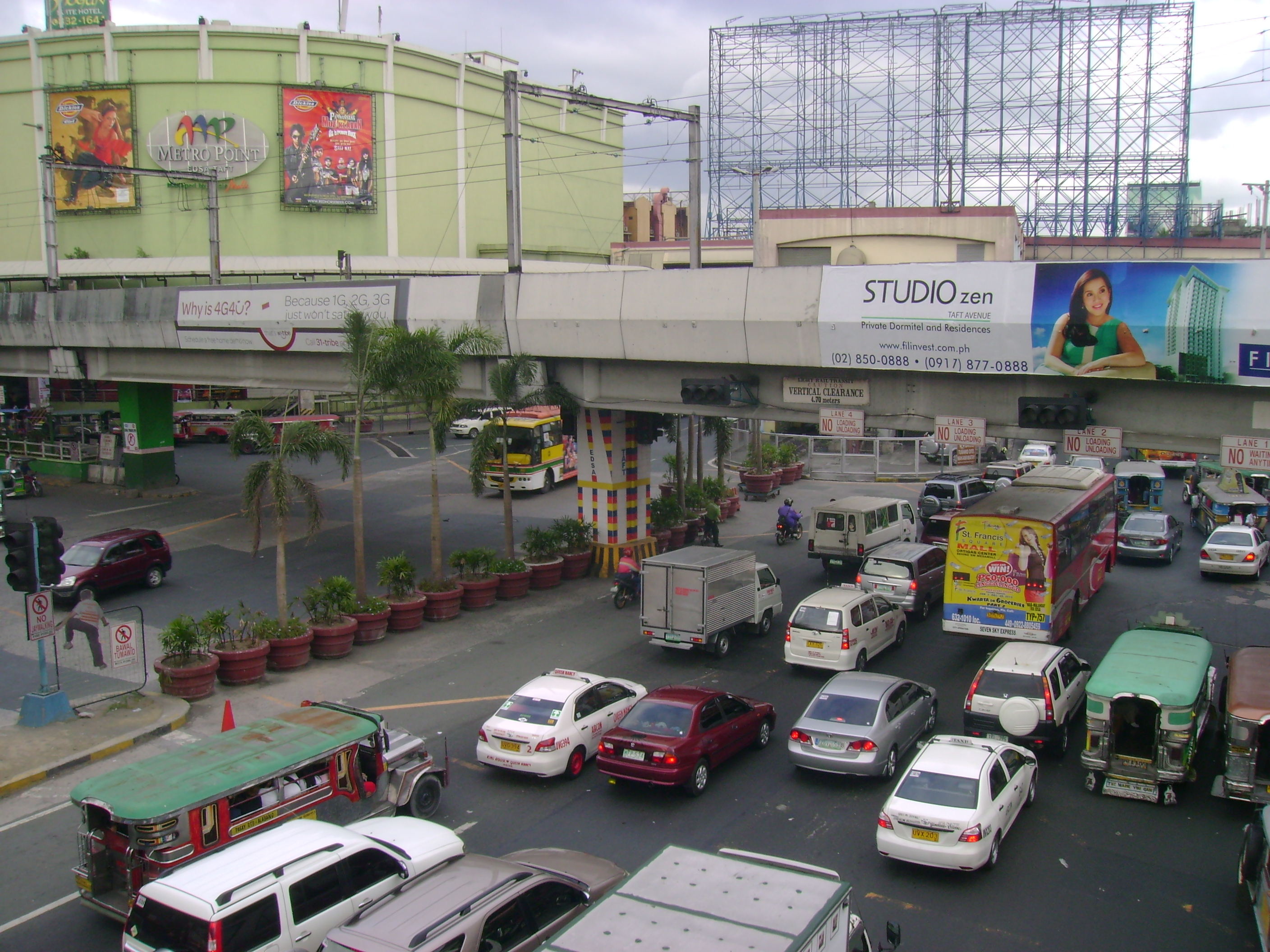 Pasay Rotonda(EDSA - Taft Ave.)